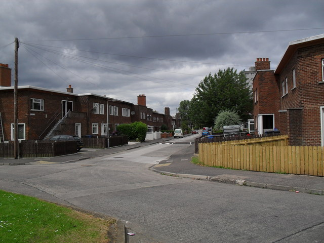 Burren Way, Cregagh Estate This is the view down Burren Way on the Cregagh Estate. This street's claim to fame is that it was where soccer star George Best spent his childhood years. His family have recently sold the house.